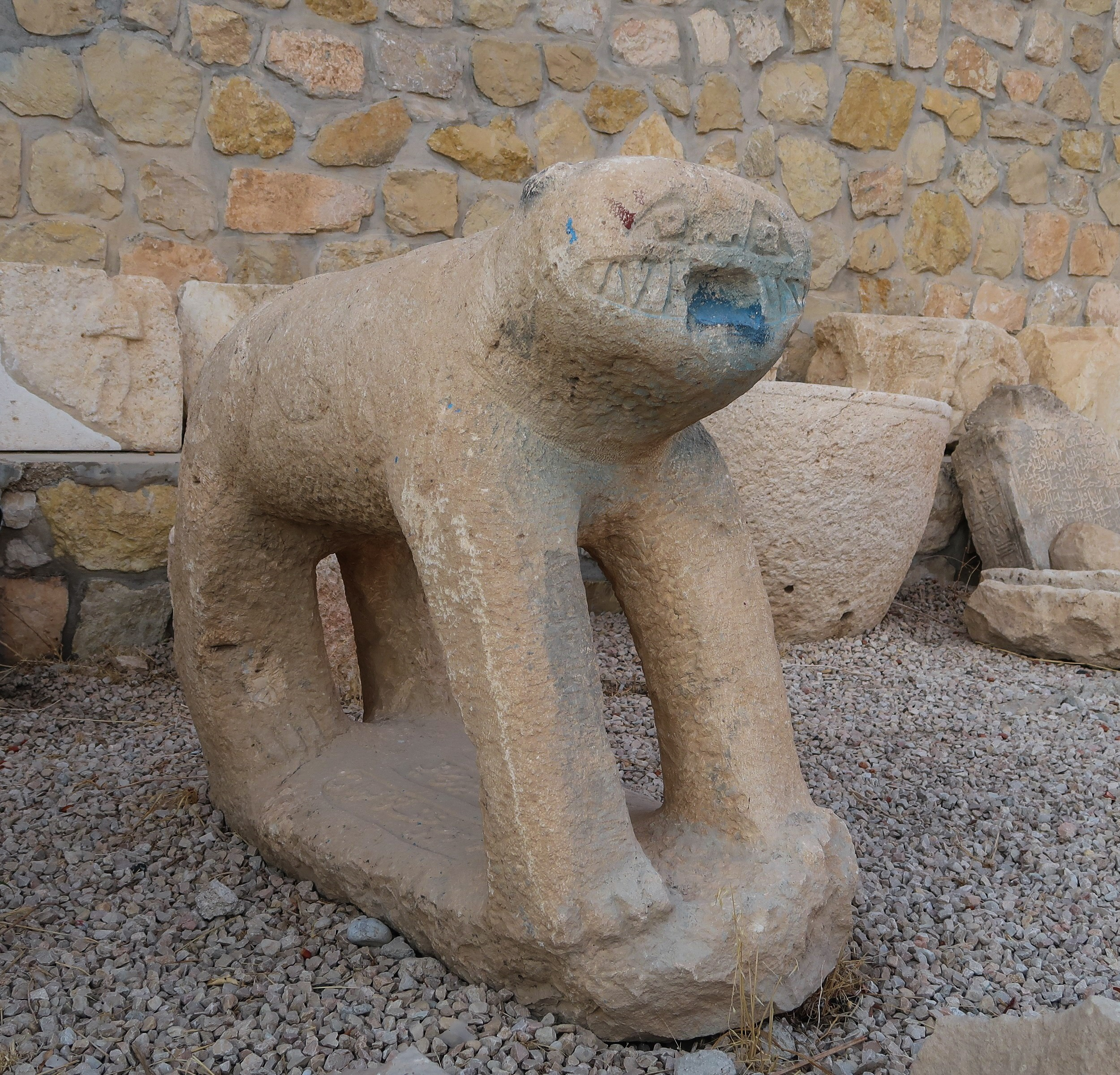 Sculpture in ruins of Iranian ancient city Bishapur